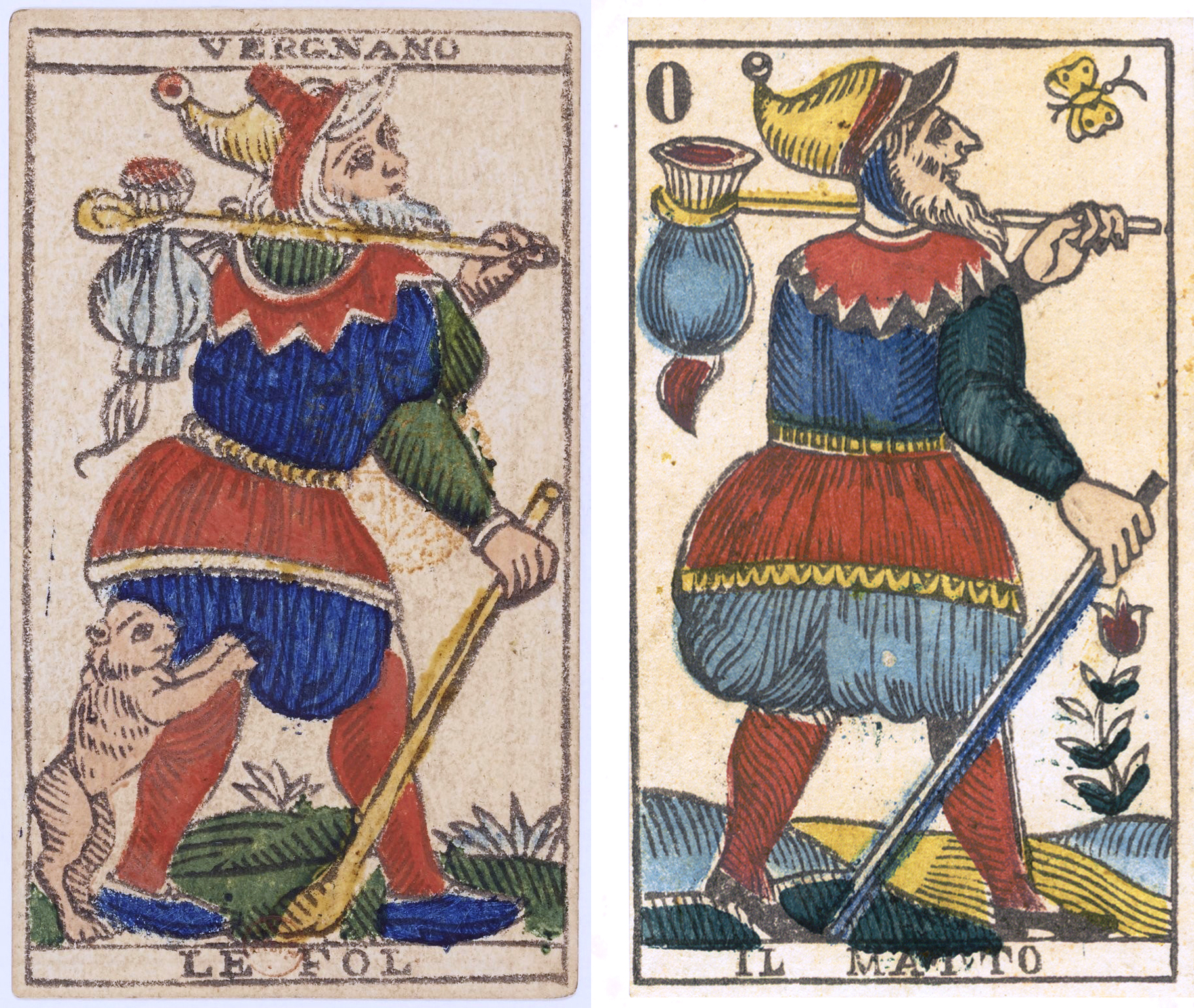 The Fool in two different versions of the Tarot printed in Turin (northern Italy) by Stefano Vergnano: 1827 (left) and around 1830 (right).